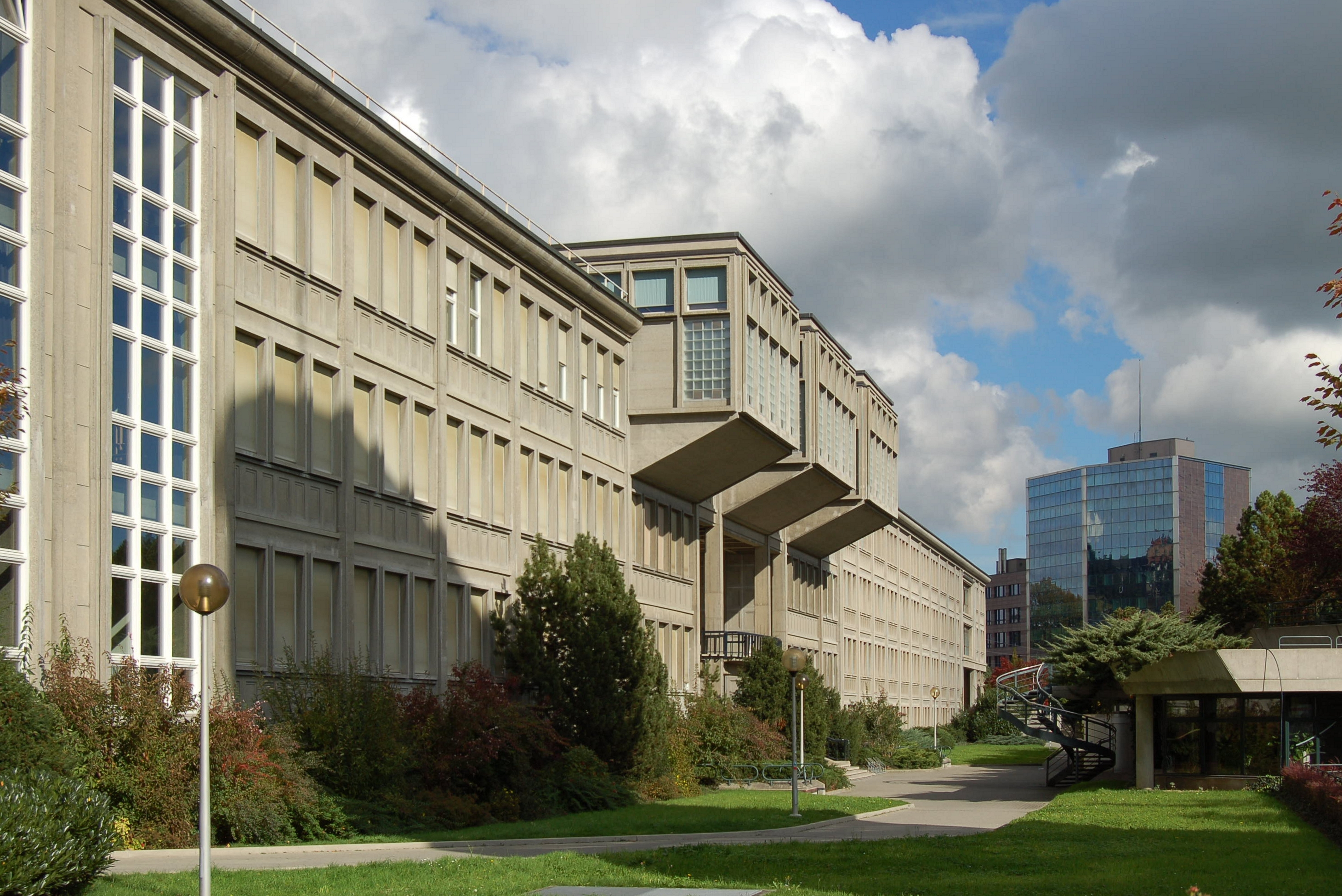 Fribourg, Switzerland